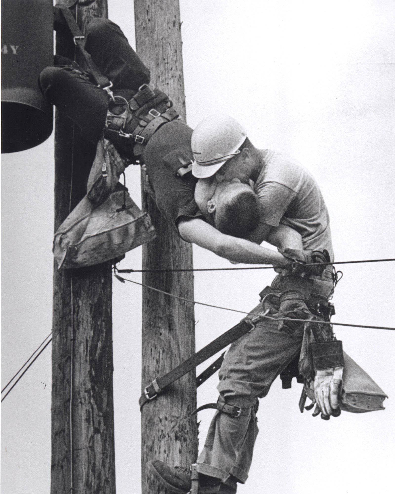 "Kiss of Life", photograph of utility lineman Jimmy Thompson giving mouth-to-mouth resuscitation to fellow worker R. G. Champion after Champion was knocked unconscious by an electric shock. Winner of the 1968 Pulitzer Prize for Spot News Photography.